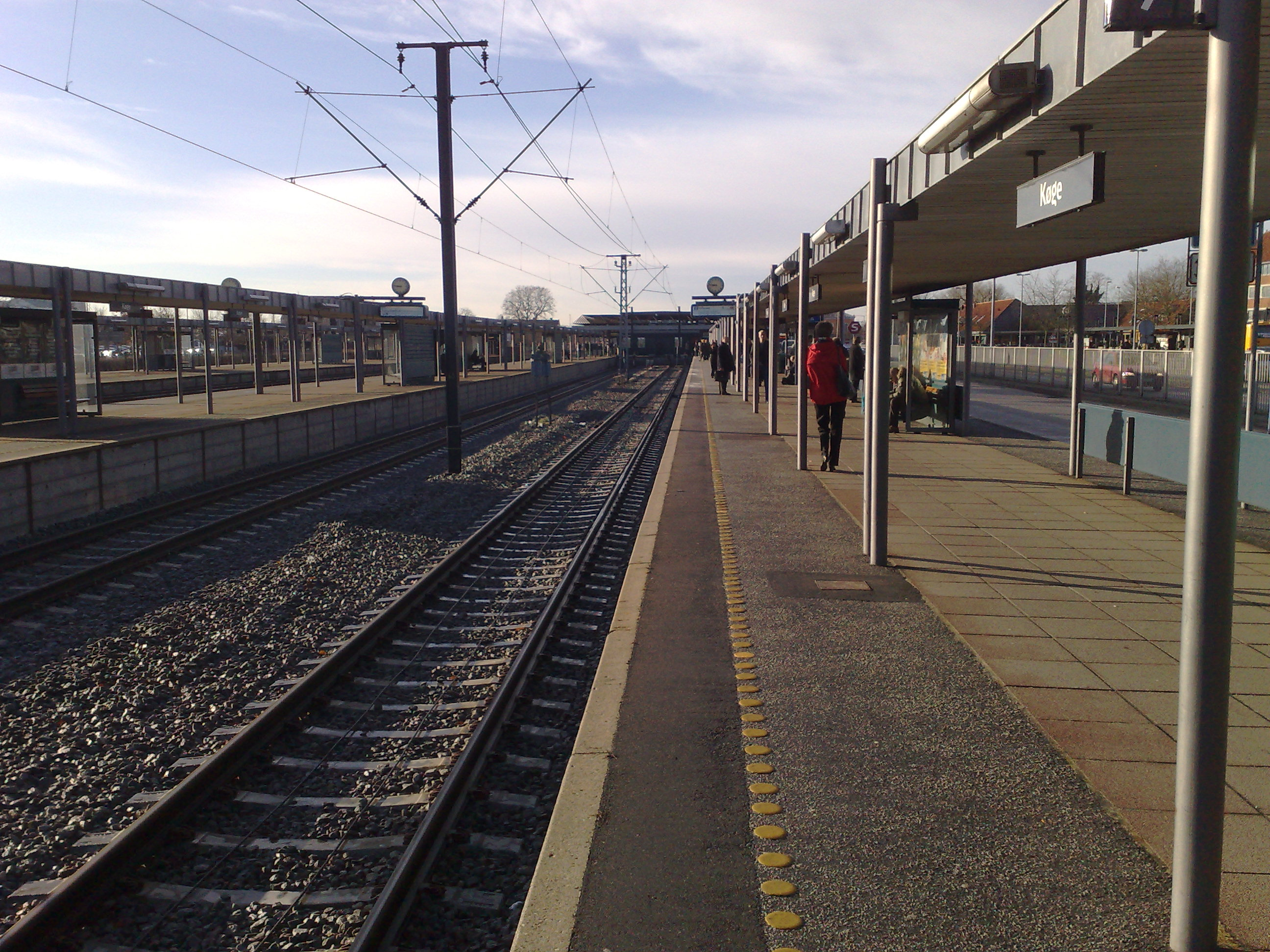 Danish railway station Køge